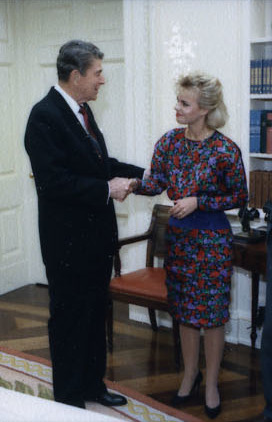 President Ronald Reagan and Bill Lanzaro (3-9) Photo Op. with Bill Lanzaro President Ronald Reagan and Gretchen Carlson (11-15) Photo Op. with Miss America 1989, Gretchen Carlson President Ronald Reagan, Amanda Smucker, Anna Fern Beiler, and Jim Kuhn (17-31) Photo Op. with Amanda Smucker who presents quilt